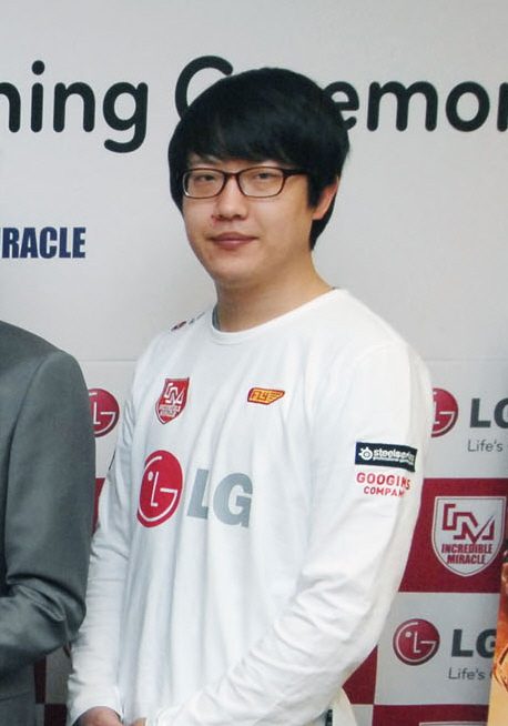 Lim Jae-Duk at LG-IM Sponsorship Singing Ceremory, on April 25, 2012